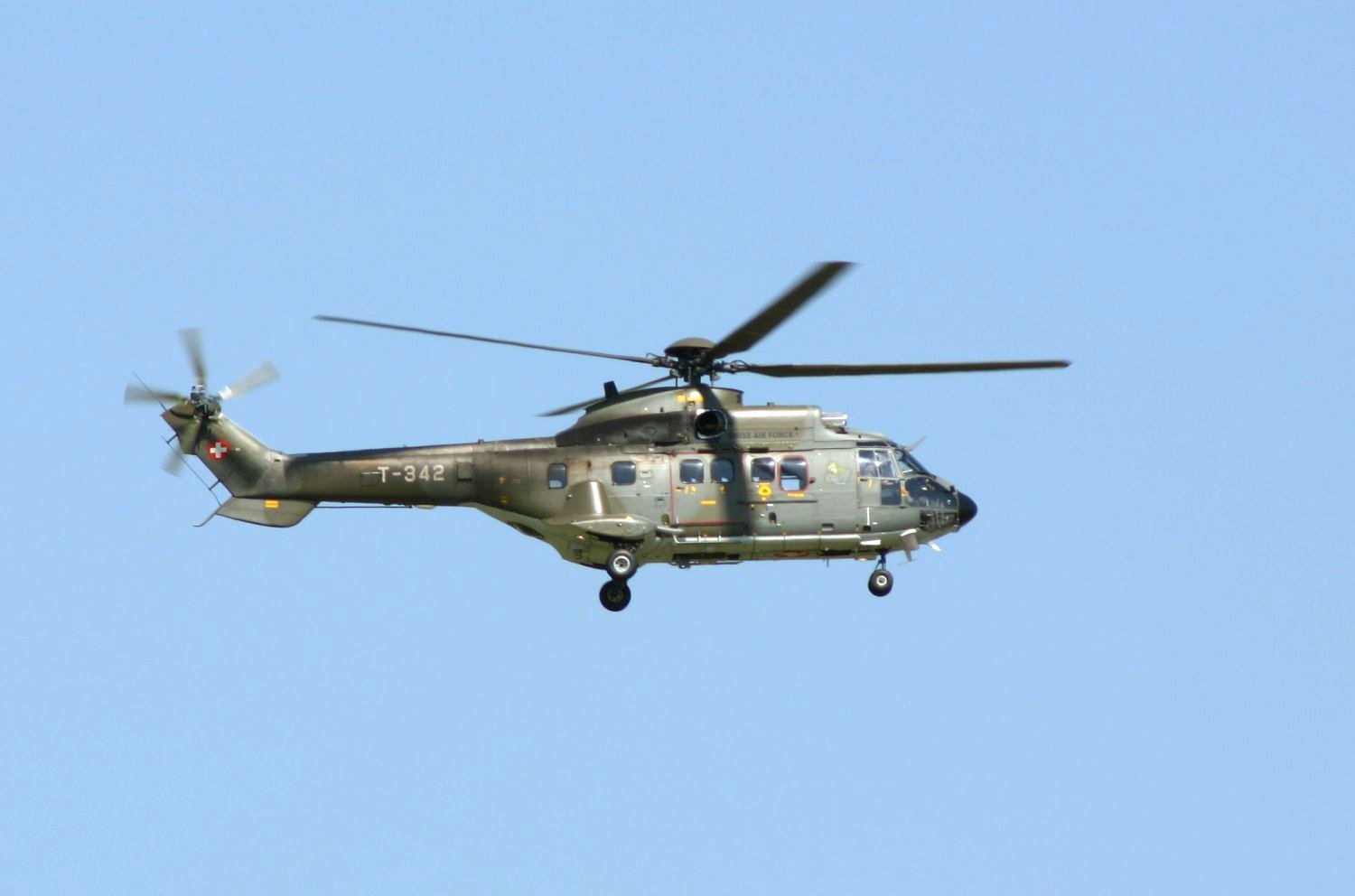 AS-532 Cougar